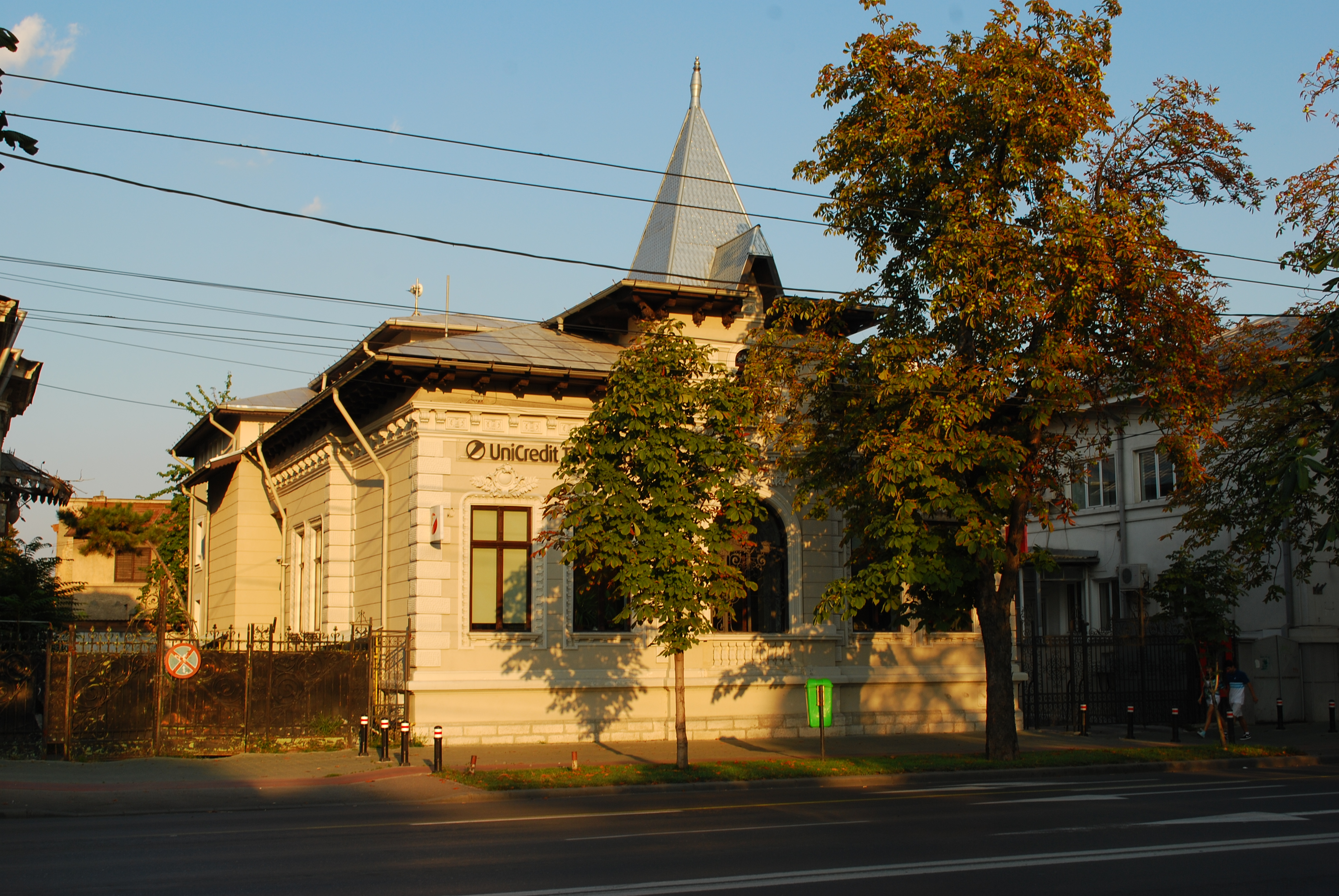 Matache Ştefănescu house in Ploieşti, RomaniaRomână: Casa Matache Ştefănescu din Ploieşti, România